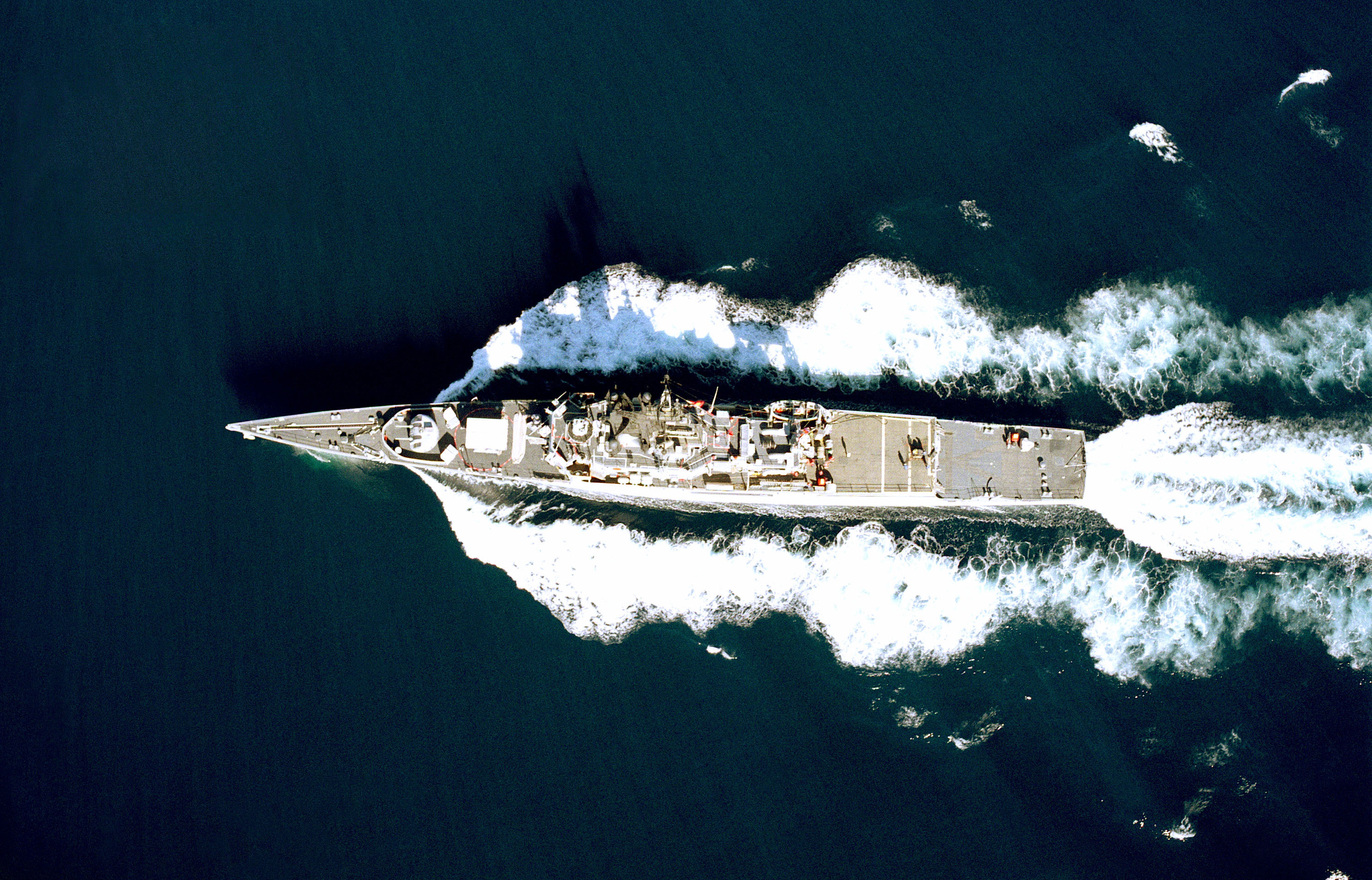 An overhead view of the frigate USS BRONSTEIN (FF 1037) underway off the coast of Southern California.